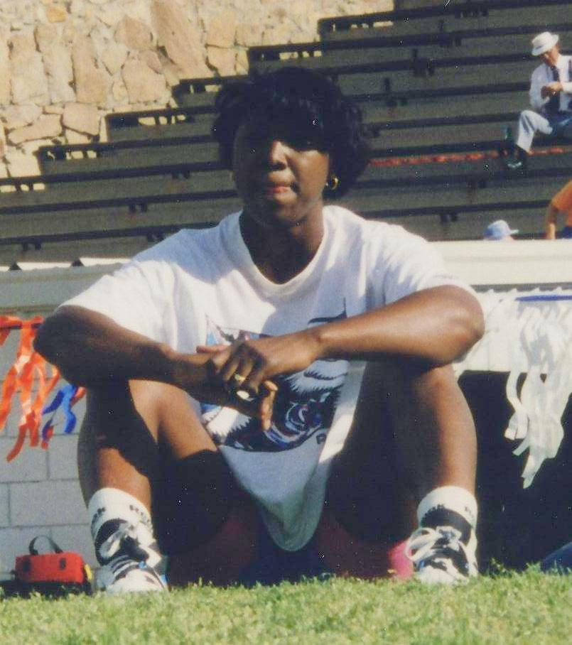 Connie Price Smith, El Paso 1994